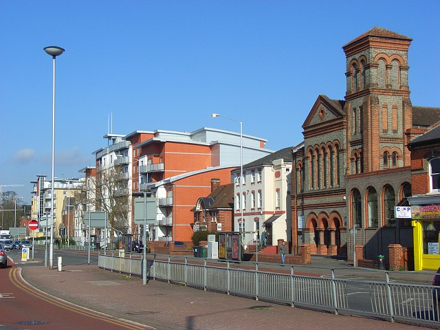 King's Road, Reading, Berkshire. This is the scene at "Cemetery Junction", where the A329 and A4 cross. The Italianate building is a Wycliffe Baptist Church. The small brick building is the Arthur Hill swimming pool.